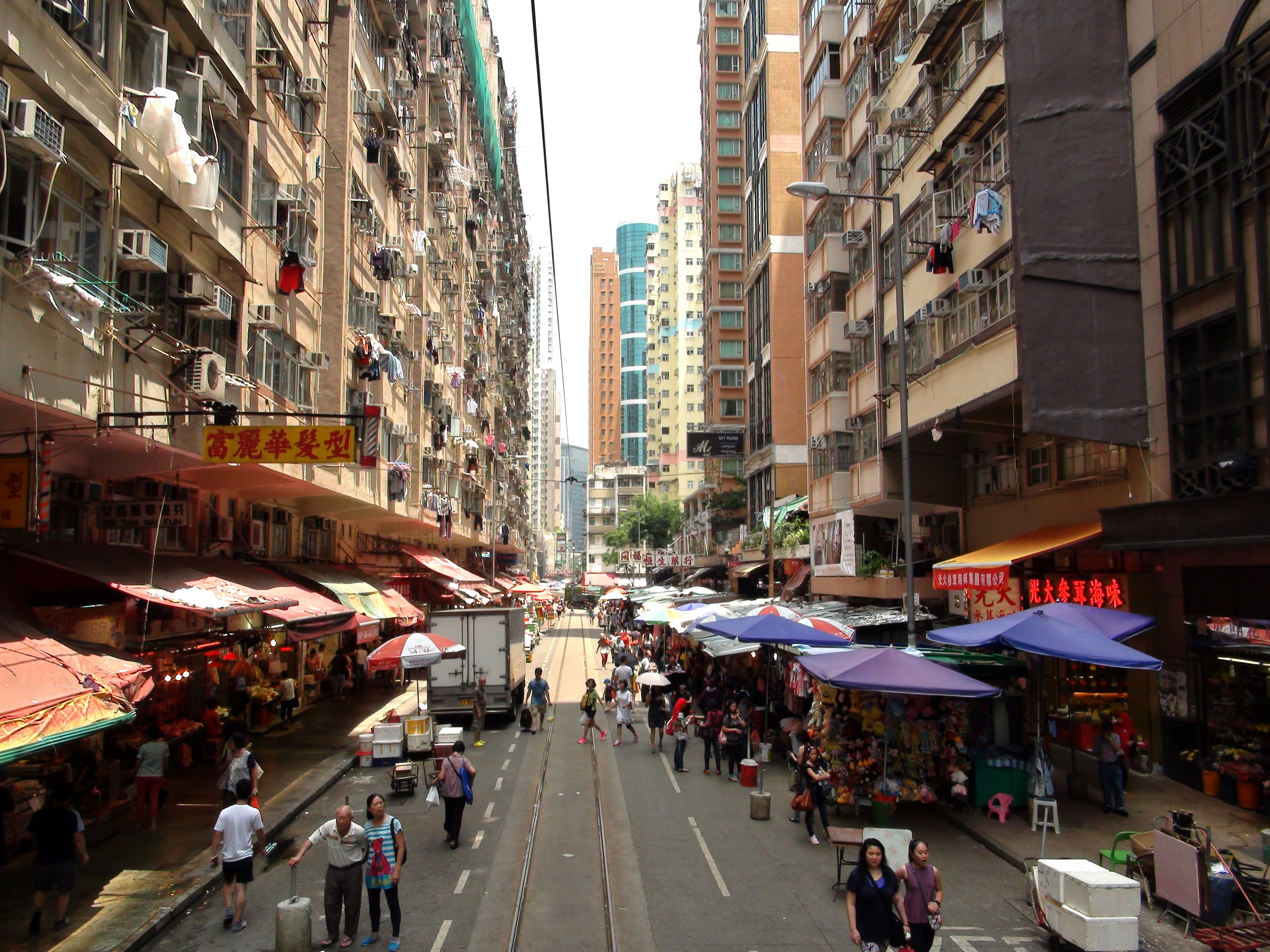 Chun Yeung Street. Aug. 2015.